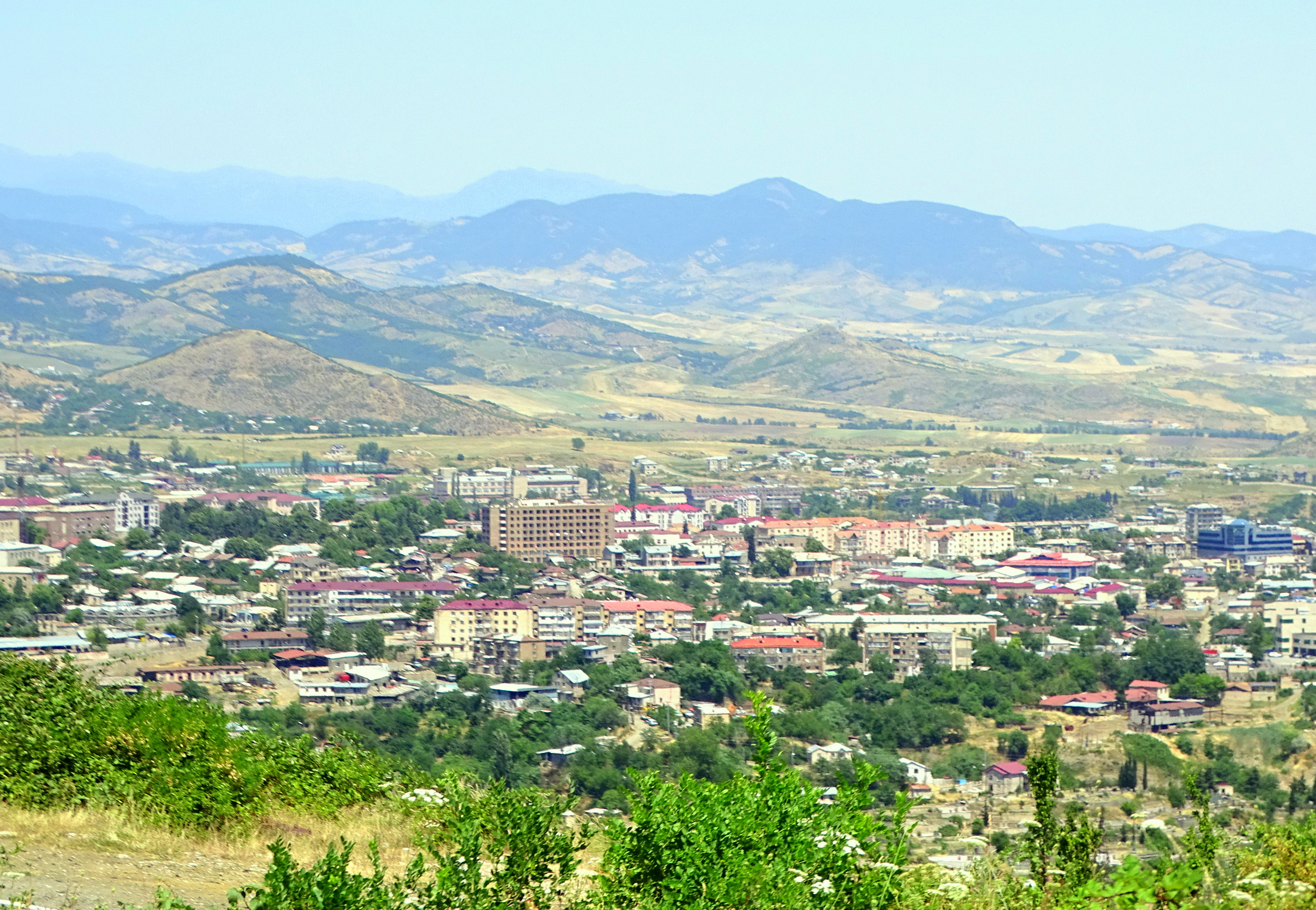 Stepanakert, NKR, June 2015